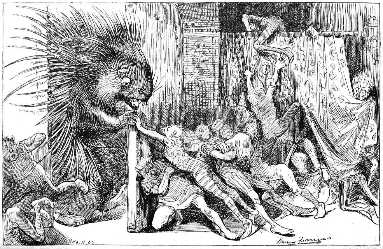 Illustration by Harry Furniss in Sylvie and Bruno Concluded